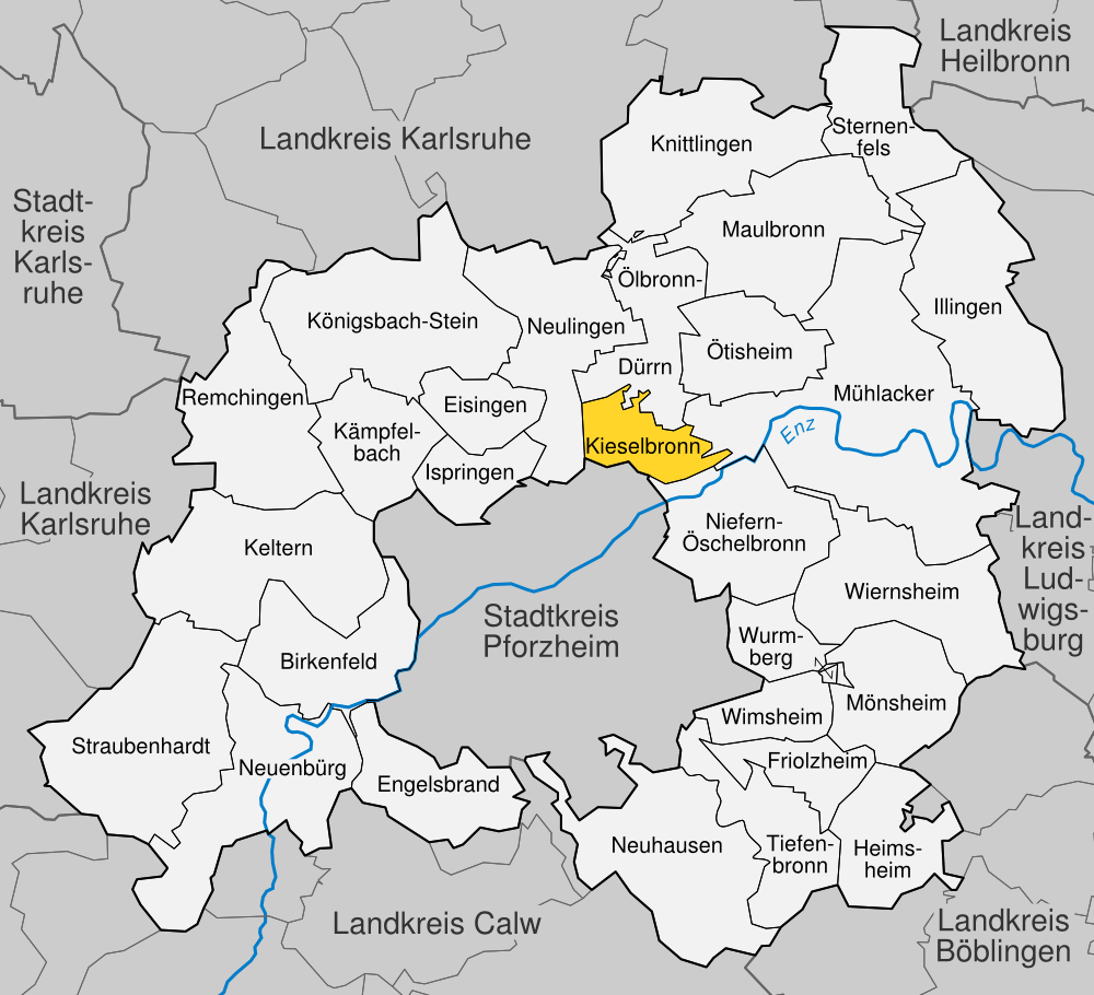 position of Kieselbronn within distict of Enzkreis, Baden-Württemberg, Germany